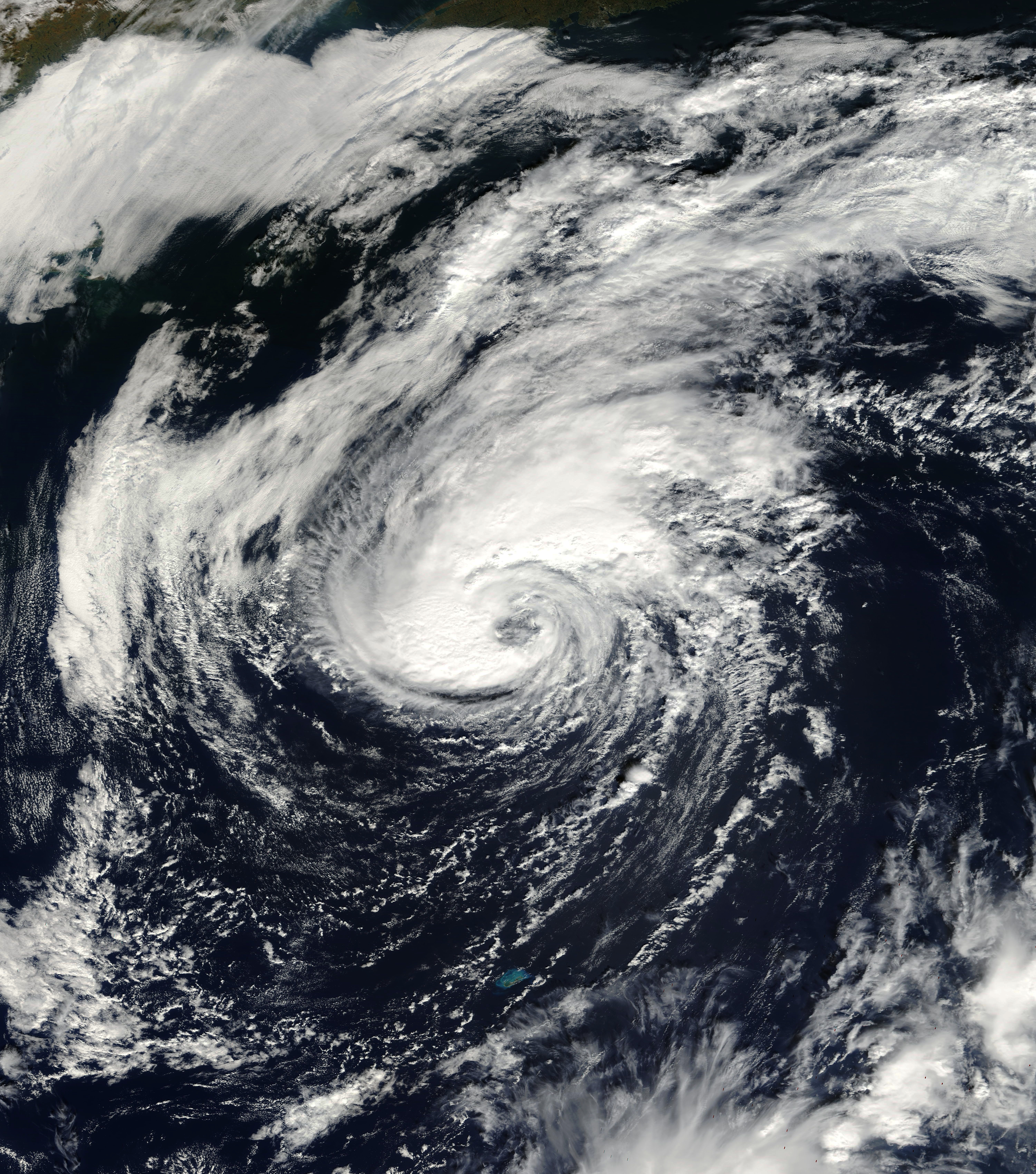 Hurricane Karen near peak intensity on October 13, 2001.